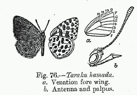 Taraka hamada (Druce, 1875), upperside (left), underside (center), forewing venation and head detail